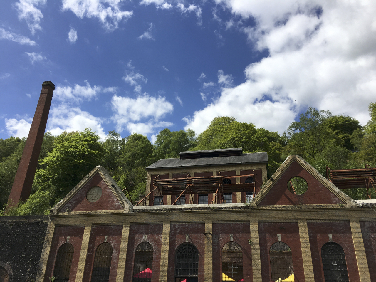 Photograph May 2018 of some of the eleven listed buildings of the former colliery site in Crumlin, Caerphilly, Wales